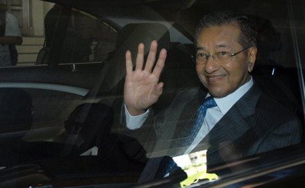 Mahathir after the V.K. Lingam trial